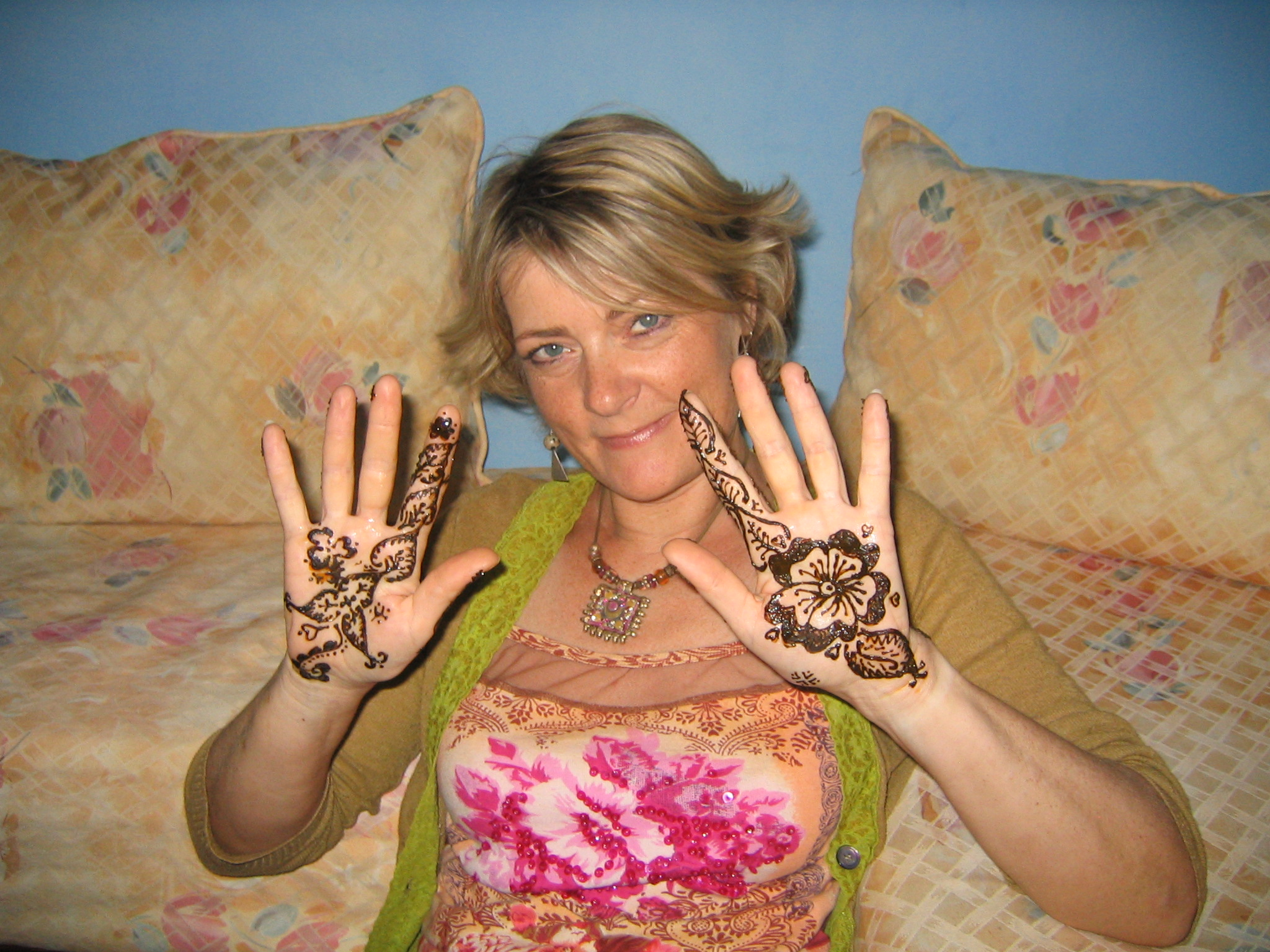 Jane Johnson, author